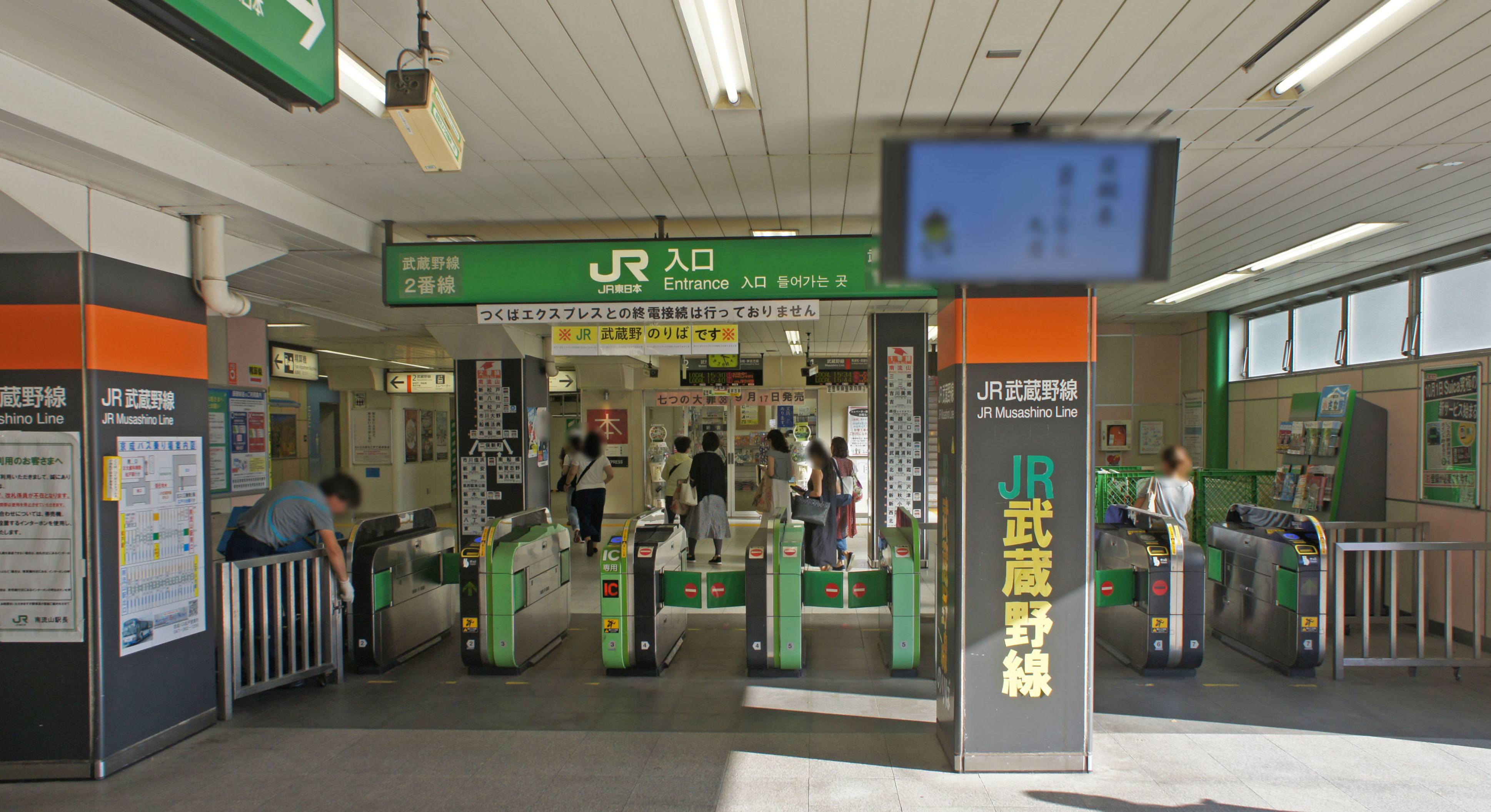 Gates of JR Musashino-Line Minami-Nagareyama Station